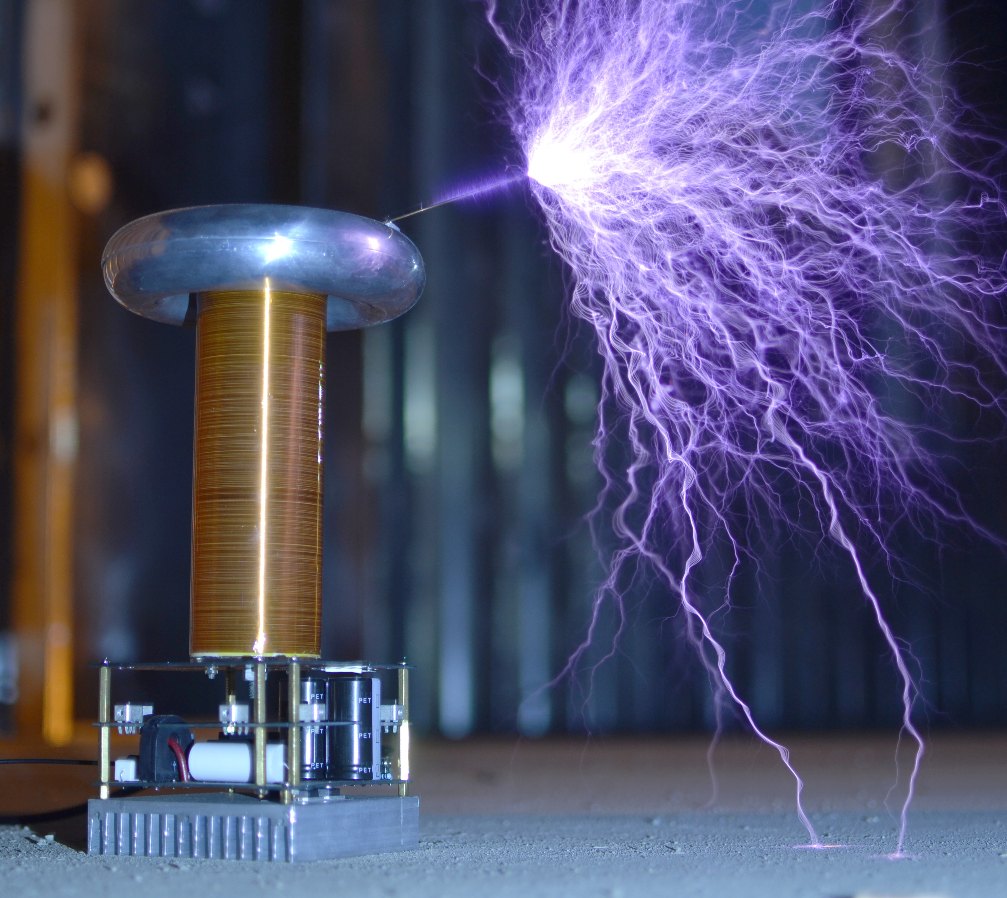 Commercial Tesla coil in operation, showing a large brush discharge from a metal wire attached to the toroidal high voltage terminal. This is the oneTeslaTS musical Tesla coil kit, shown on the OneTesla web page. It is a Dual Resonant Solid State Tesla Coil (DRSSTC), in which the pulses of current are applied to the tuned primary circuit by IGBT transistor switches instead of a spark gap as in many Tesla coils. It can function as a "musical Tesla coil", by attaching a keyboard the current can be modulated to make the spark discharges produce musical tones.